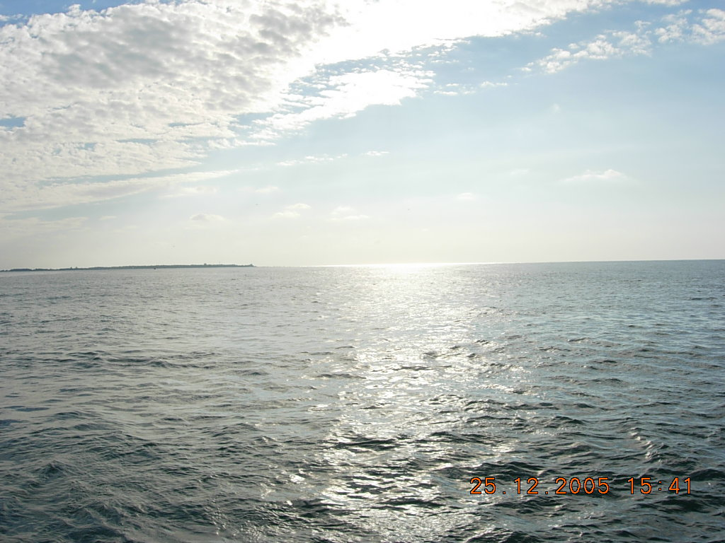 A view of St Martin island as taken from a ship.